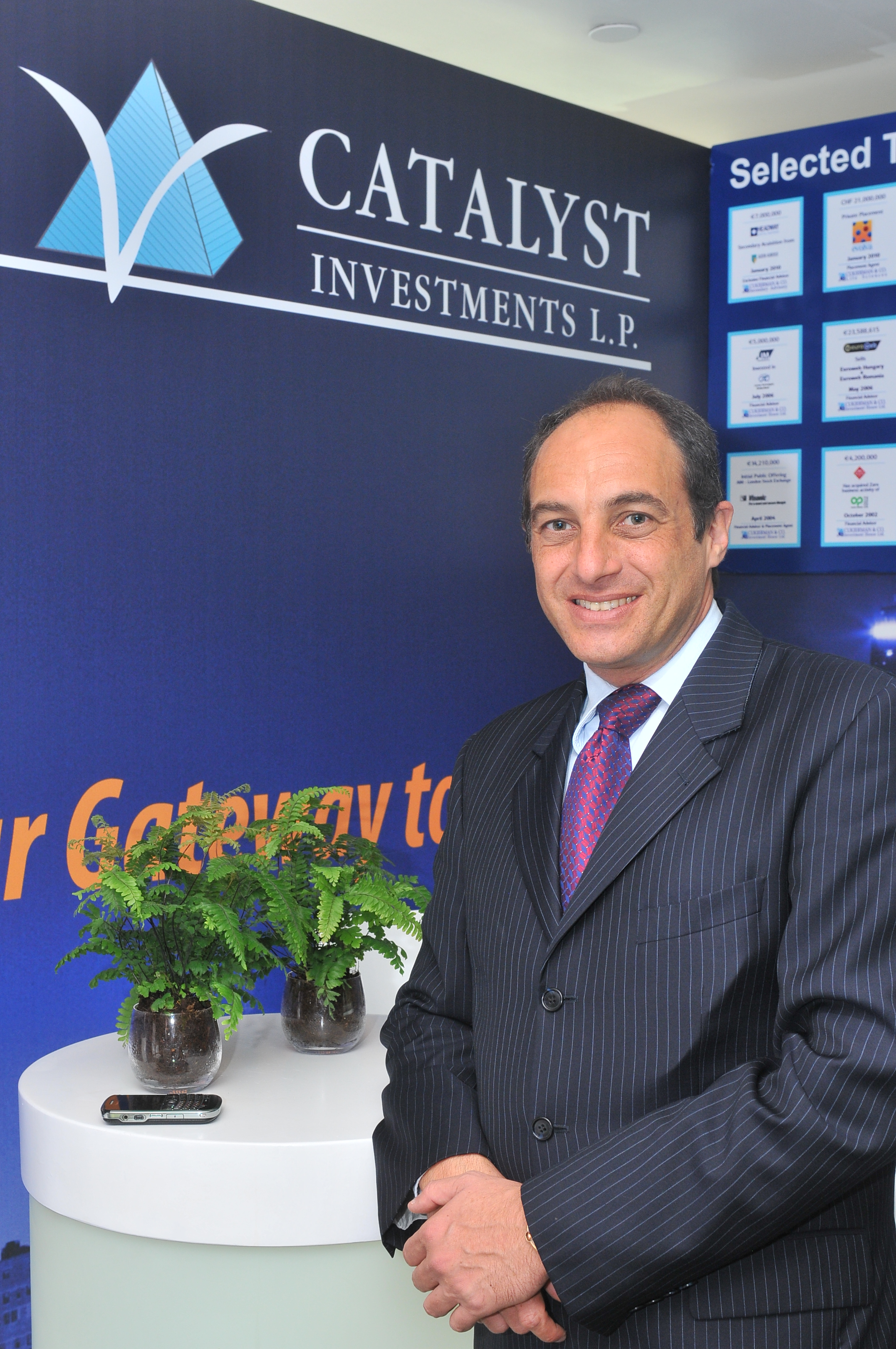 Mr.Cukierman during the Go4Europe Conference 2012.